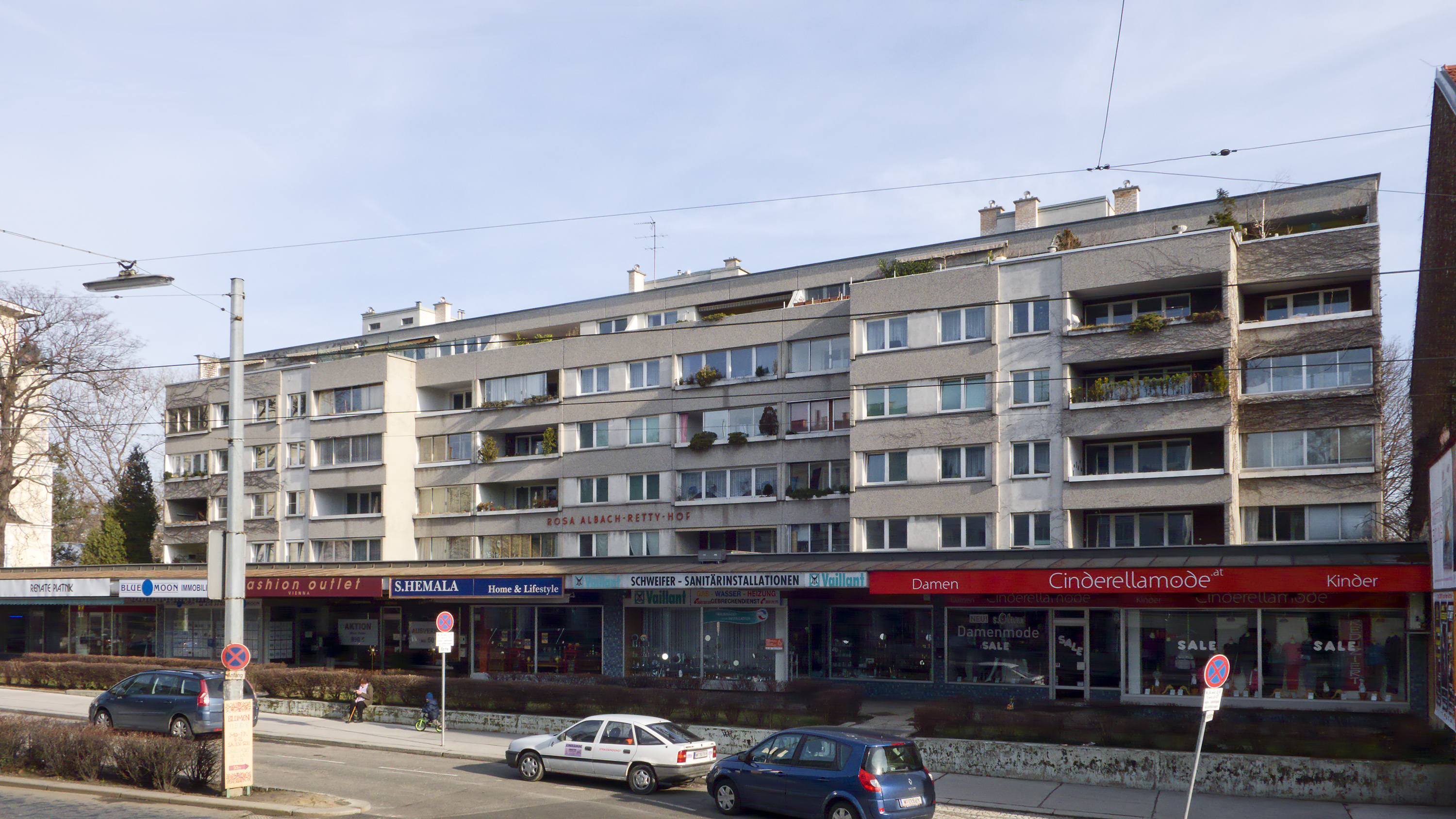 Rosa-Albach-Retty-Hof in Vienna Döbling